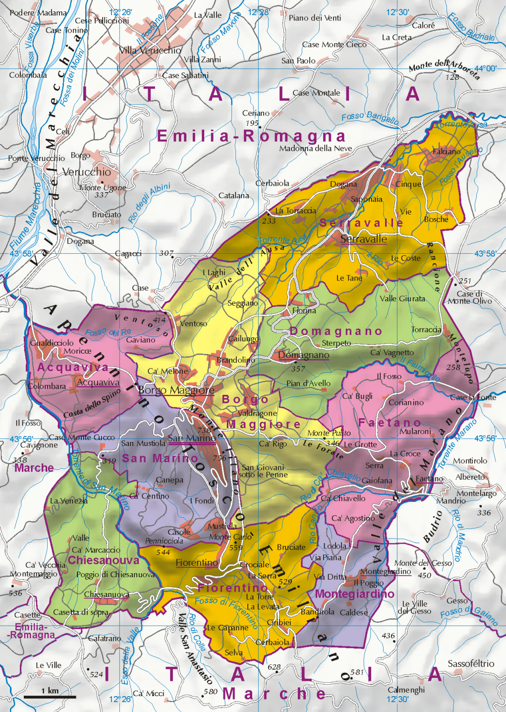 Mapa administracyjna San Marino, wersja włoska Administrative map of San Marino, Italian version